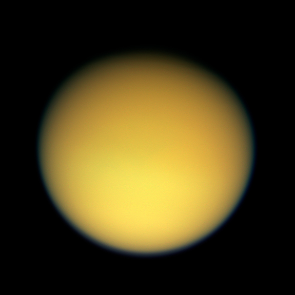 Saturn's large, smog-enshrouded moon Titan greets Cassini in full natural color as the spacecraft makes its third close pass on Feb. 15, 2005. This view has been rotated so that north on Titan is up. There is a slight difference in brightness from north to south, a seasonal effect that was noted in NASA's Voyager spacecraft images, and is clearly visible in some infrared images from Cassini. The northern polar region is largely in darkness at this time. This image was taken with the Cassini spacecraft wide angle camera through using red, green and blue spectral filters were combined to create this natural color view. The image was acquired at a distance of approximately 229,000 kilometers (142,000 miles) from Titan and at a Sun-Titan-spacecraft, or phase, angle of 20 degrees. Resolution in the image is about 14 kilometers (9 miles) per pixel.